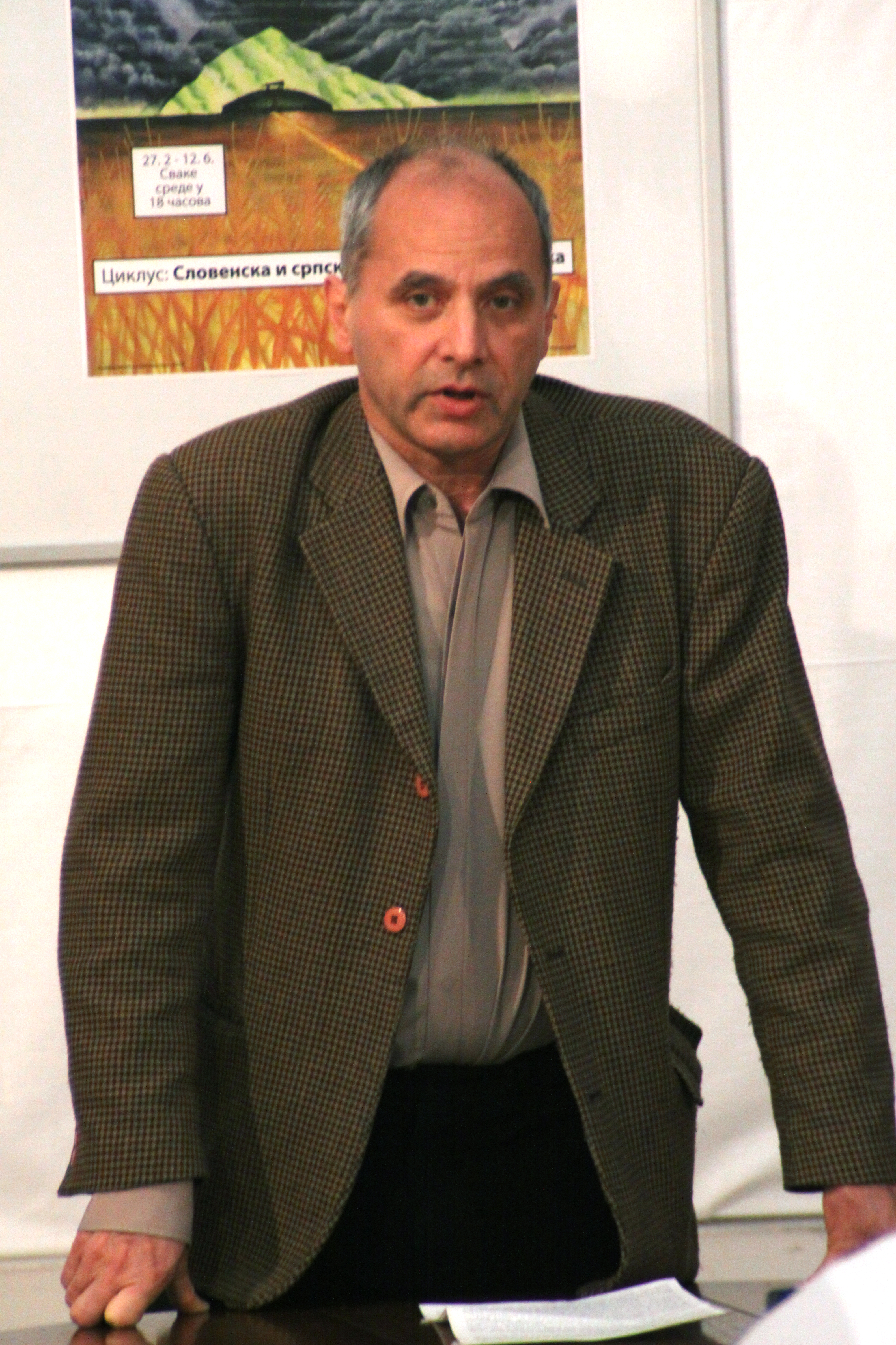 Slavic and Serbian fantasy cycle, University library, Belgrade, Serbia, Dejan Ajdačić, Serbian philologist. Srpski (latinica): Ciklus "Slovenska i srpska fantastika", Univerzitetska biblioteka, Beograd, Srbija, Dejan Ajdačić, srpski filolog